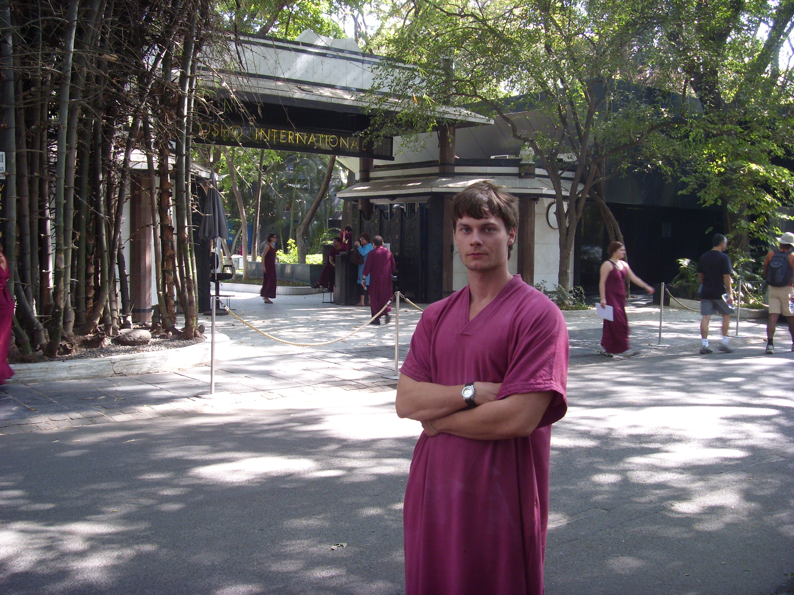 Me in maroon robe in front of the Osho Ashram... err... Osho International Meditation Resort